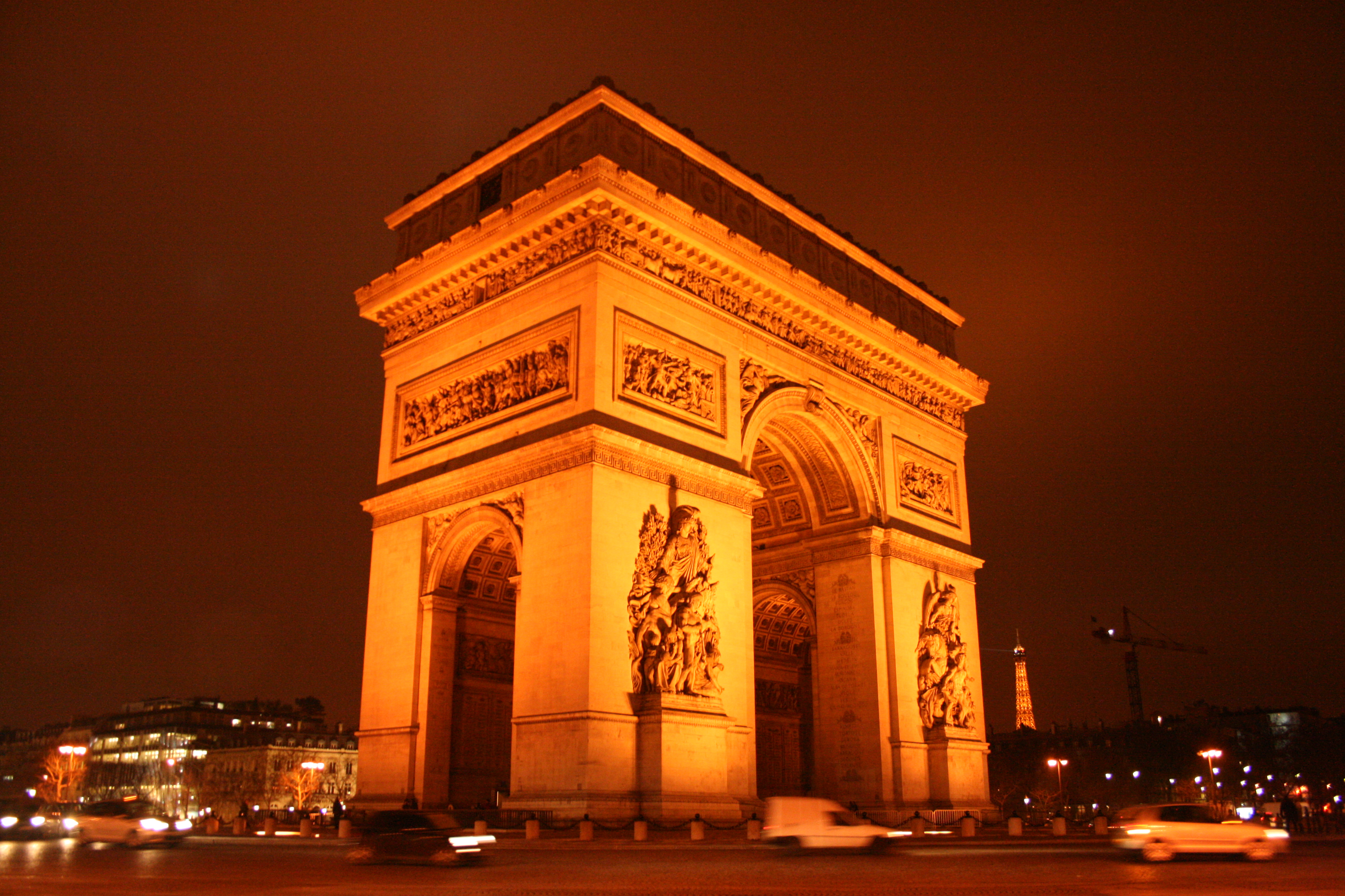 Arc de Triomphe de l'Étoile, Paris